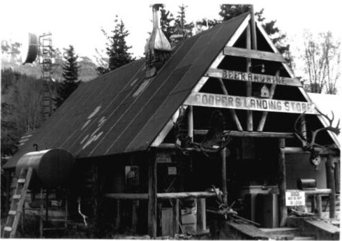 Full view of the front of the Cooper Landing, Alaska post office.